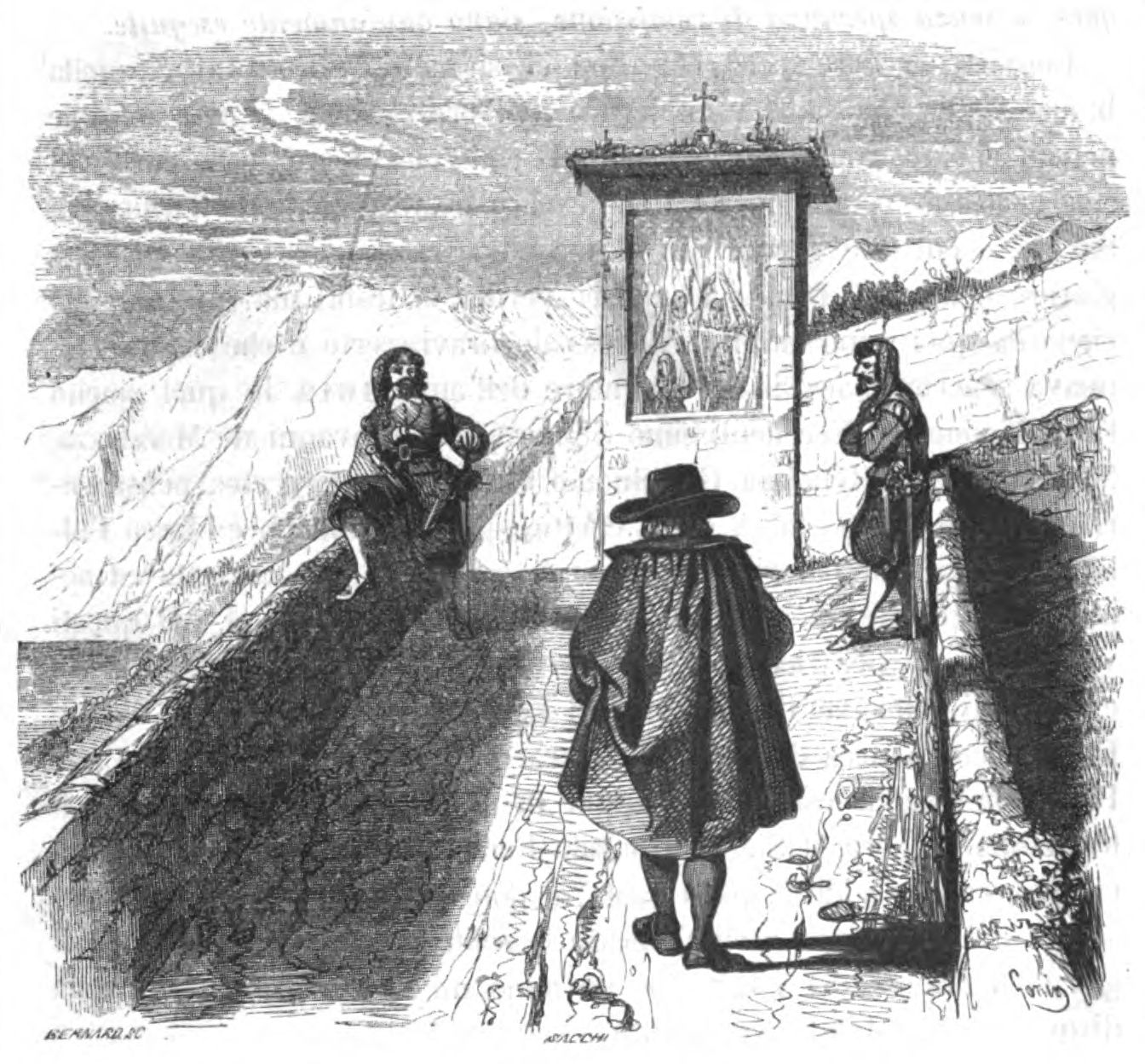 Picture from "I promessi sposi" of don Abbondio and the don Rodrigo's men